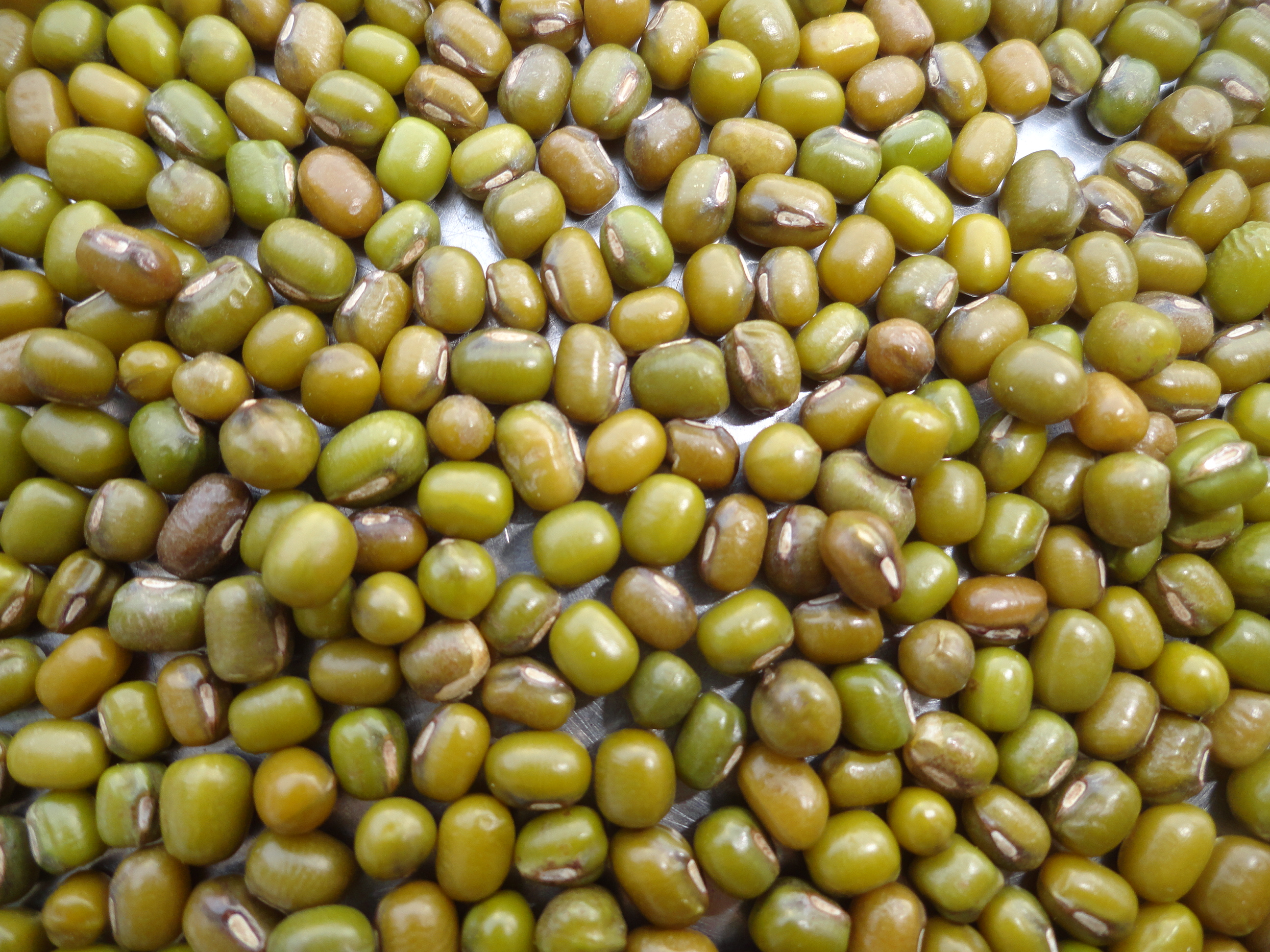 green gram seeds. my own work